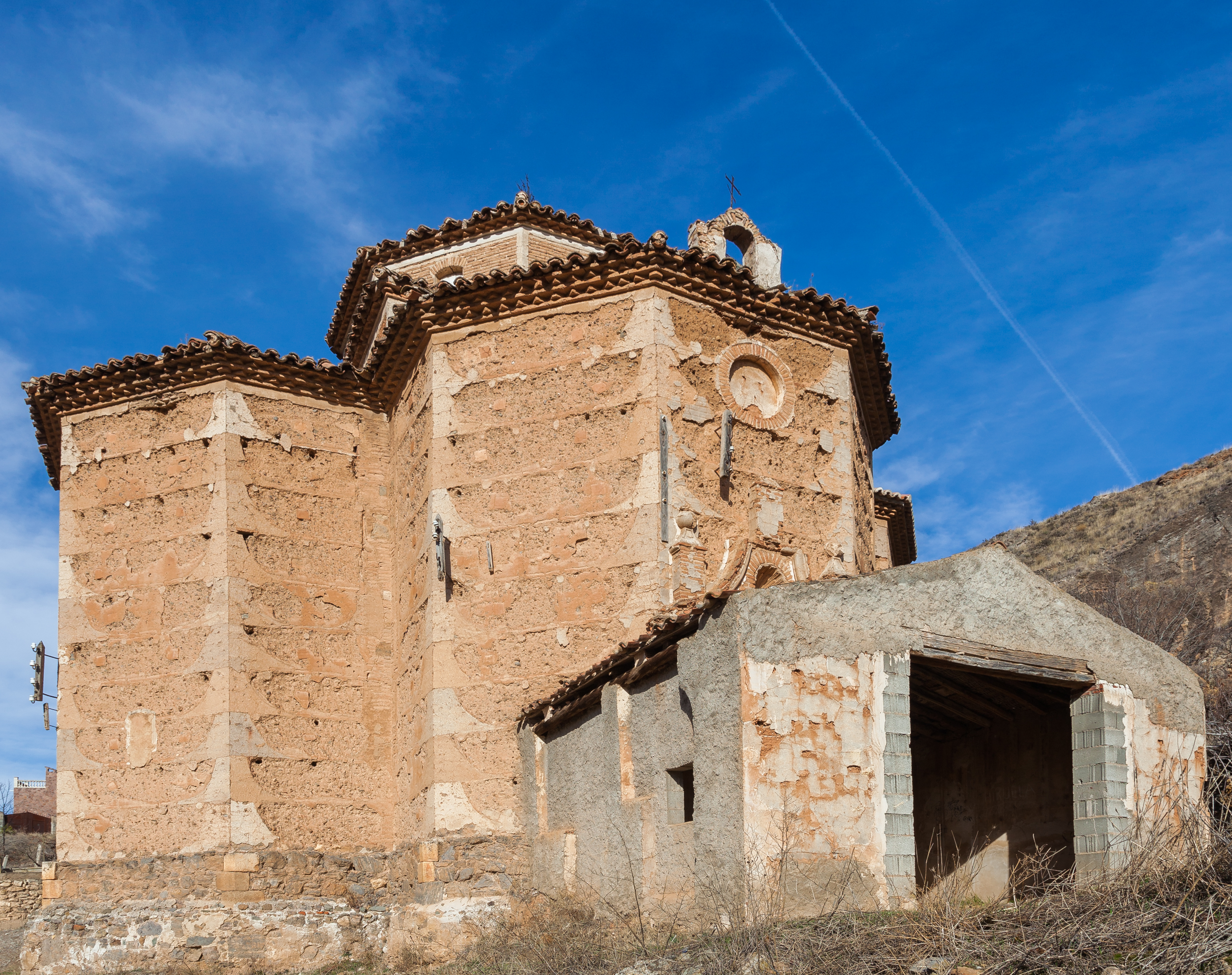 Hermitage of San Roque, Villafeliche, Zaragoza, Spain